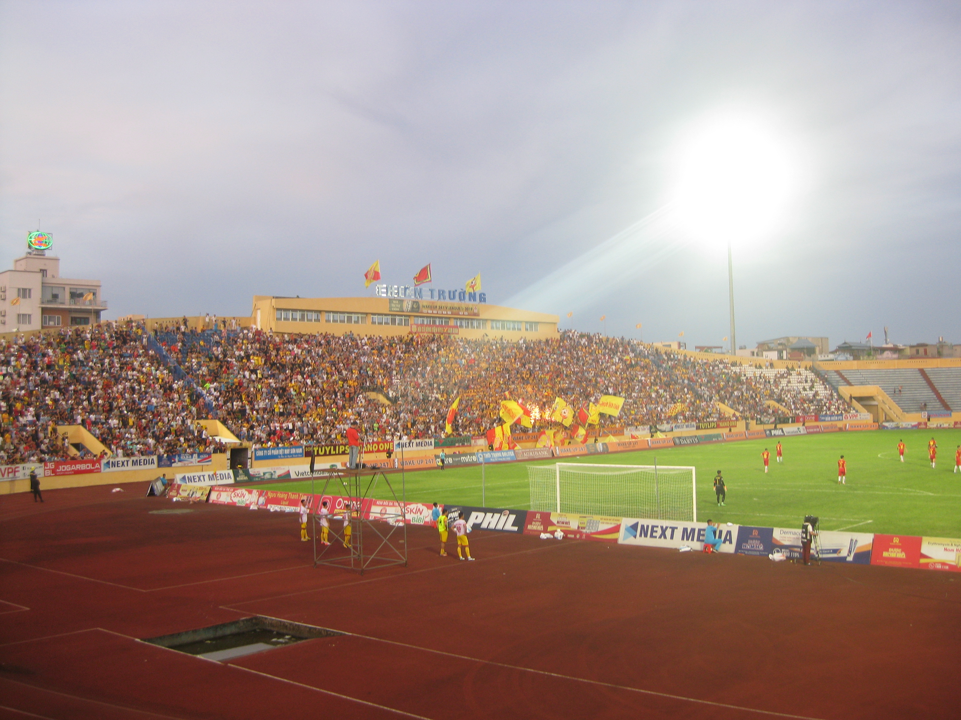 Sân vận động Thiên Trường ngày 28/7/2019, trong trận đấu giữa CLB Nam Định và CLB Sông Lam Nghệ An. Trong hình là khán đài B đang hò reo khi đội nhà vừa ghi bàn.